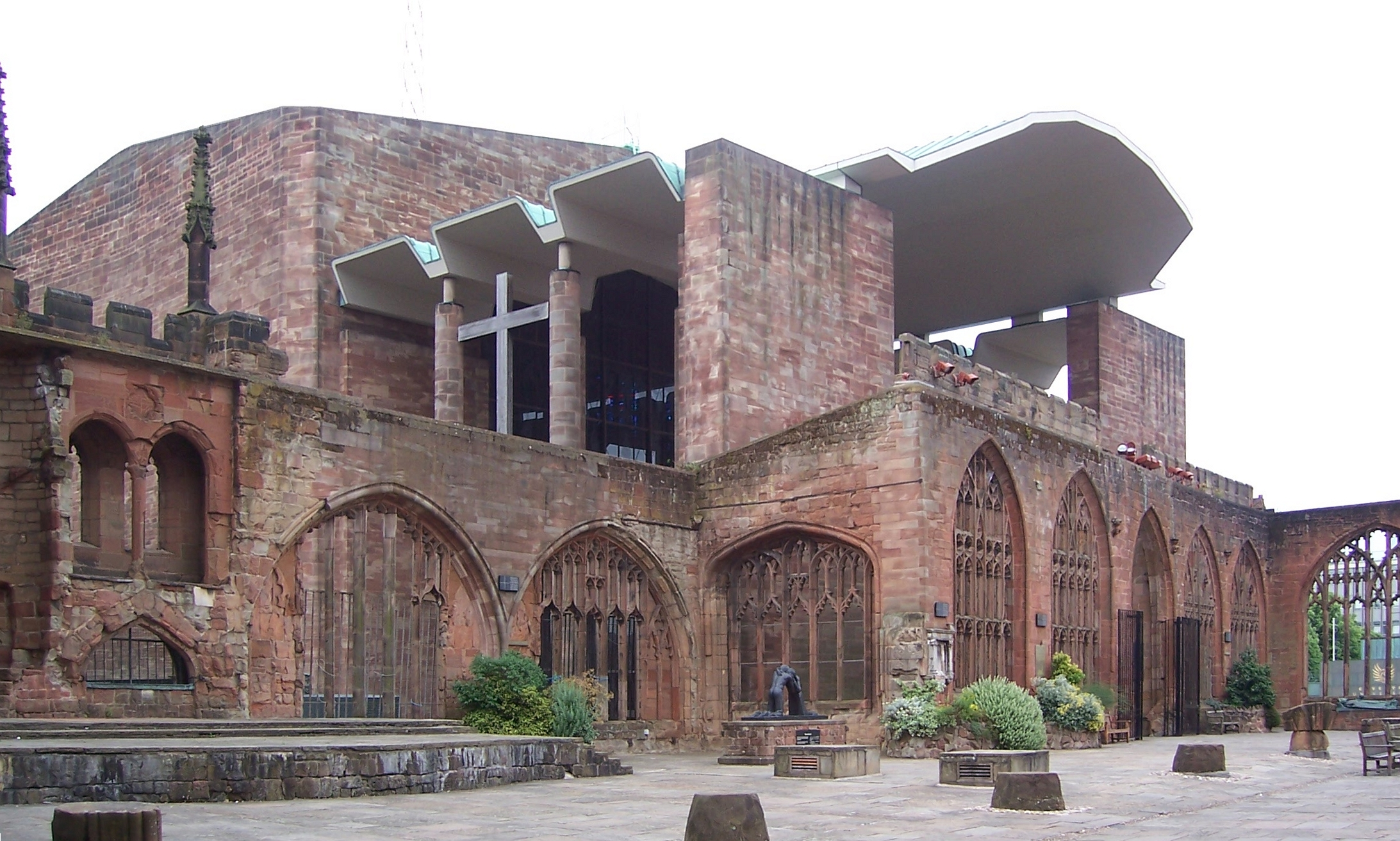 Foreground: Ruins of the old Coventry Cathedral, destroyed by bombing in World War II. Background: New Coventry Cathedral, built in the postwar years.